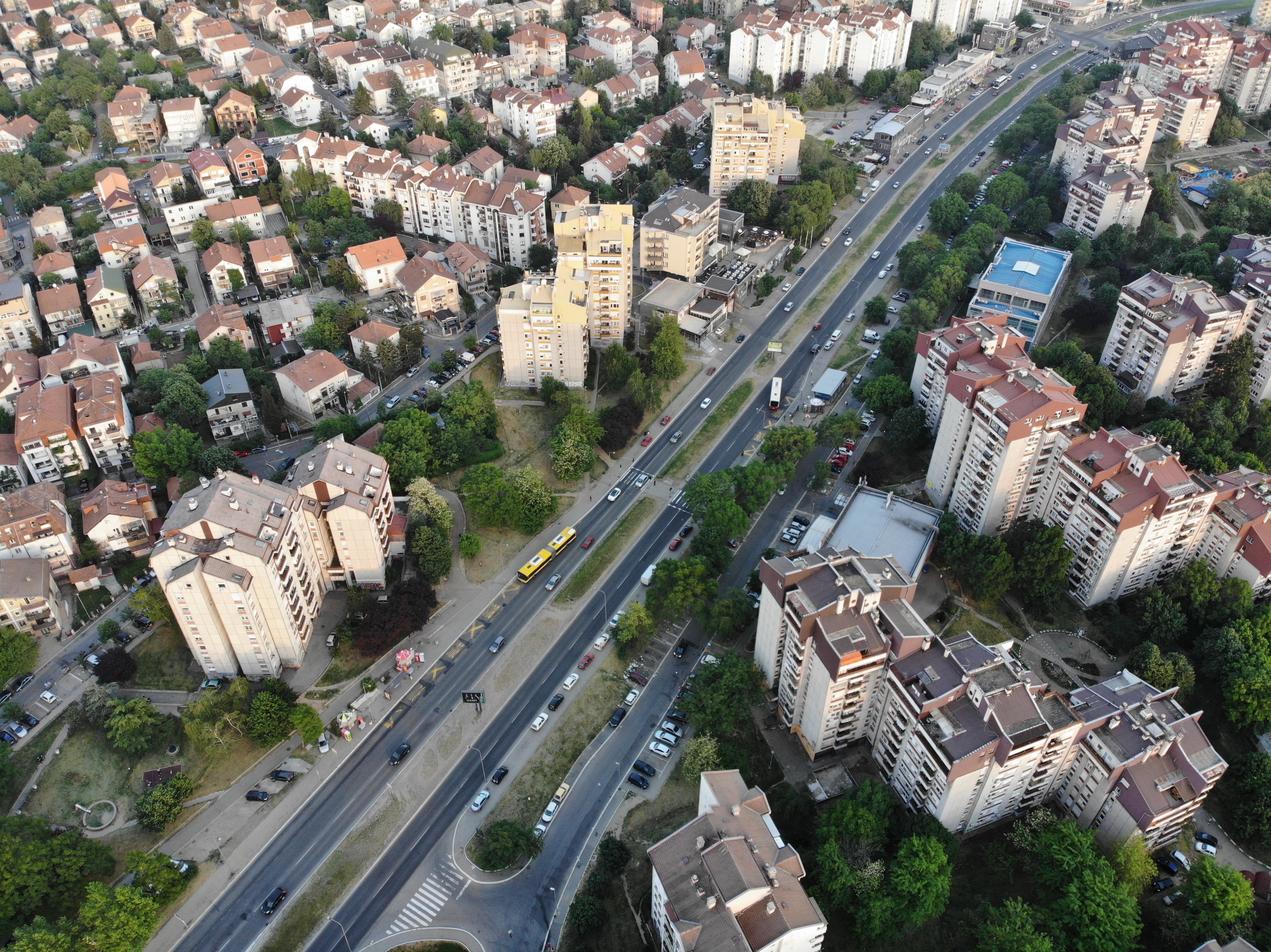 Aerial photo of the main street in Žarkovo neighborhood, Čukarica municipality in Belgrade, Serbia. This image represents the street and it's surroundings much better. Srpski (latinica): Trgovačka ulica iz vazduha, u Beogradskom naselju Žarkovo, u opštini Čukarica